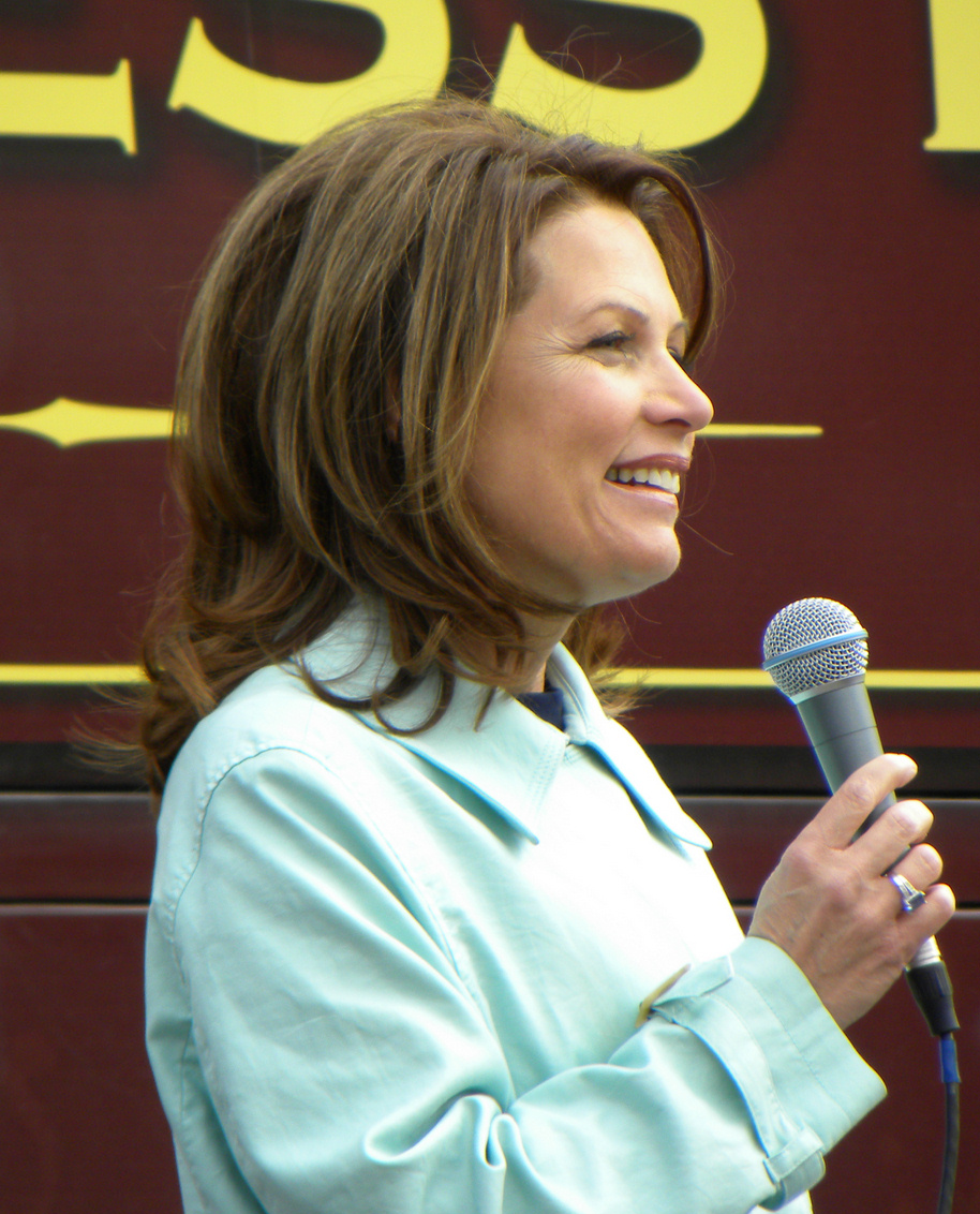 US Representative Michele Bachmann (R-Minn) addressing a Tea Party Express rally outside the Minnesota state legislature